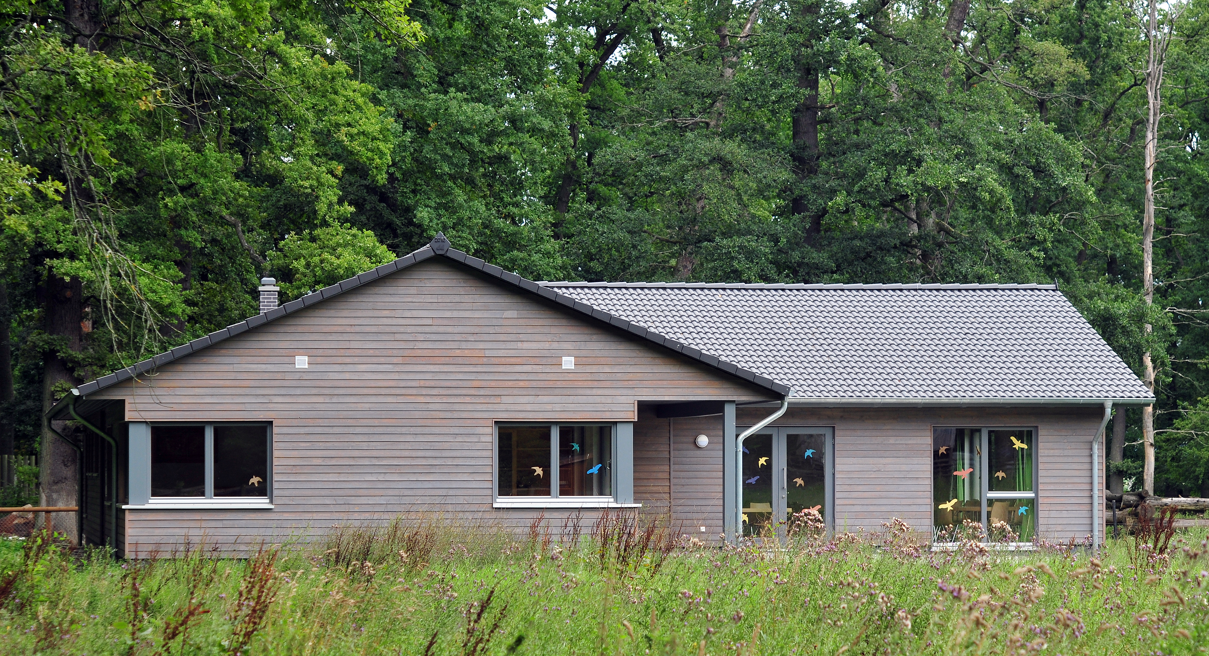 "Heinz-Sielmann-Haus" in the Wisentgehege Springe game park near Springe, Hanover, Germany